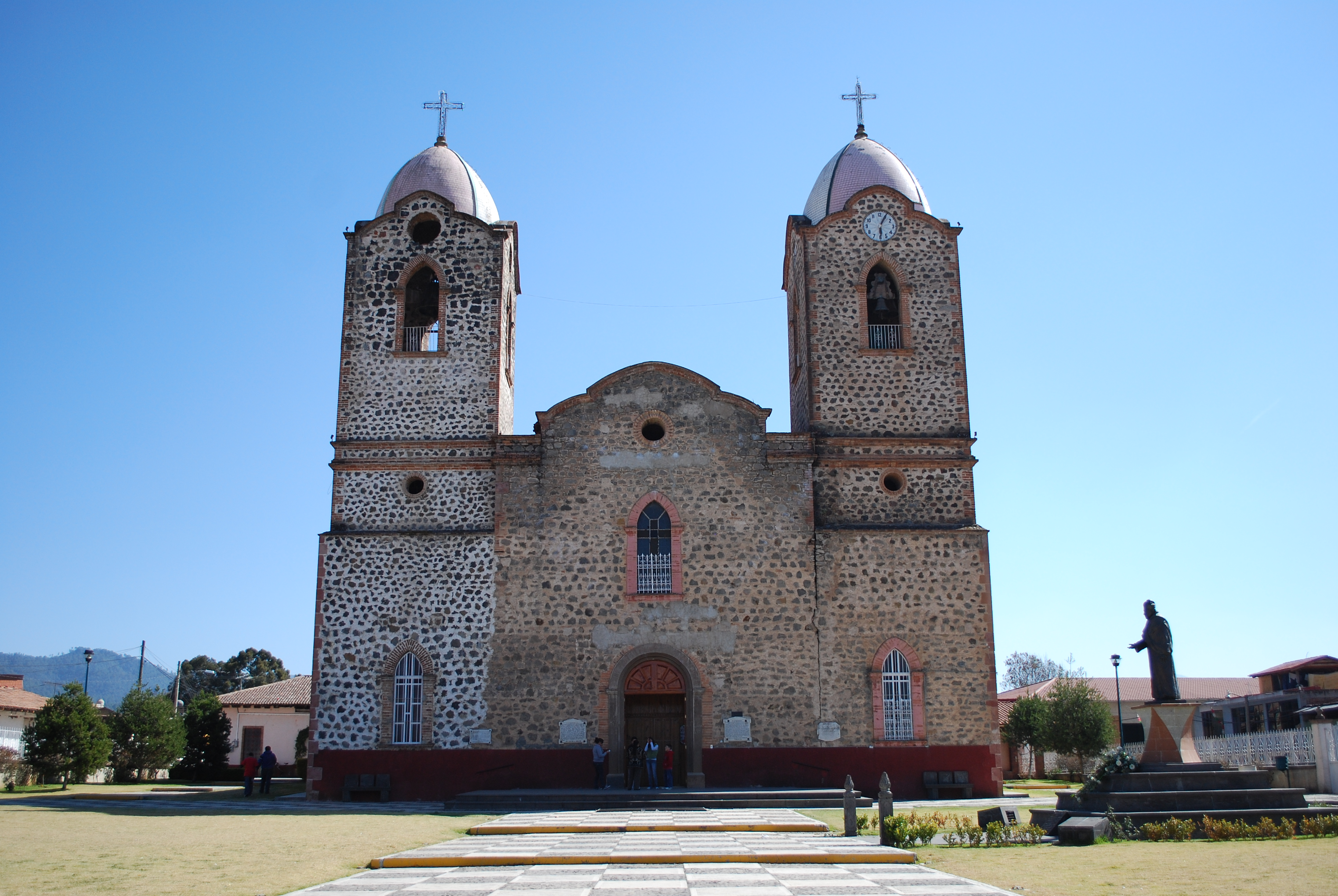 Facade of the parish church of Aporo Michoacan